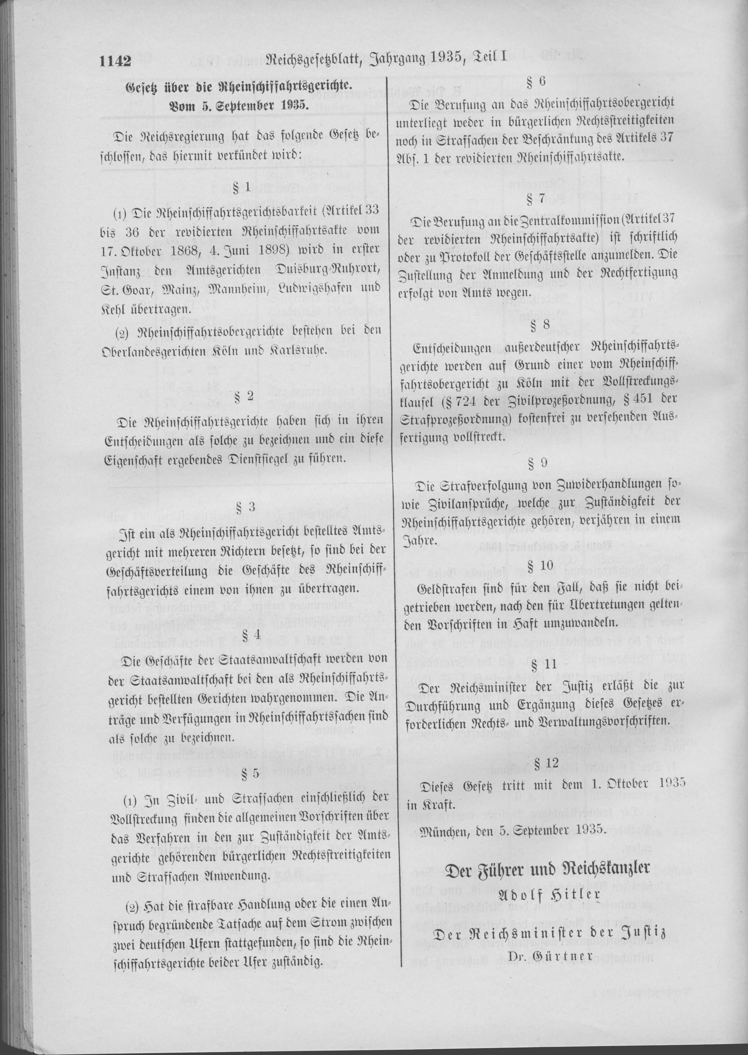 Scan from the Imperial Law Gazette of Germany, 1935, part 1